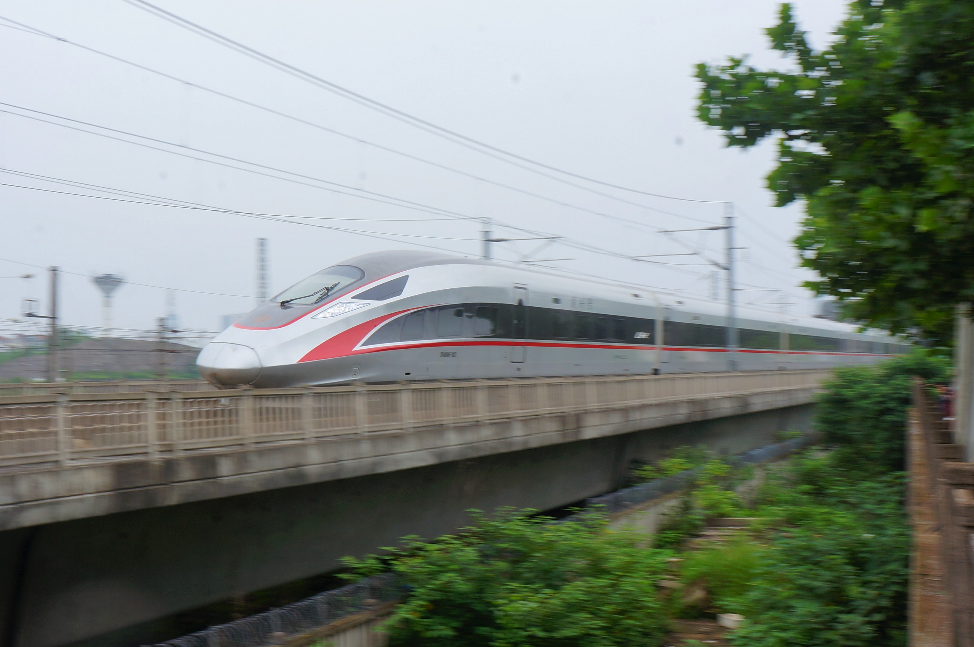 CR400AF-2037 & 2053 operates as G86 on Shanghai-Kunming HSR Jinhua section. Same as yesterday's G86/1305.